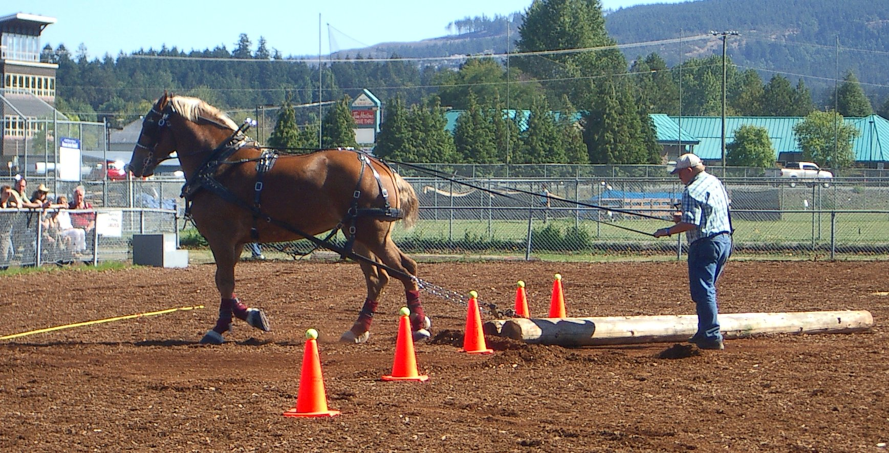 Man Belgian horses are big. Bigger than the Clydesdale's...